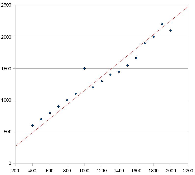 a small graph to demonstrate postive correlation and a line of best fit.